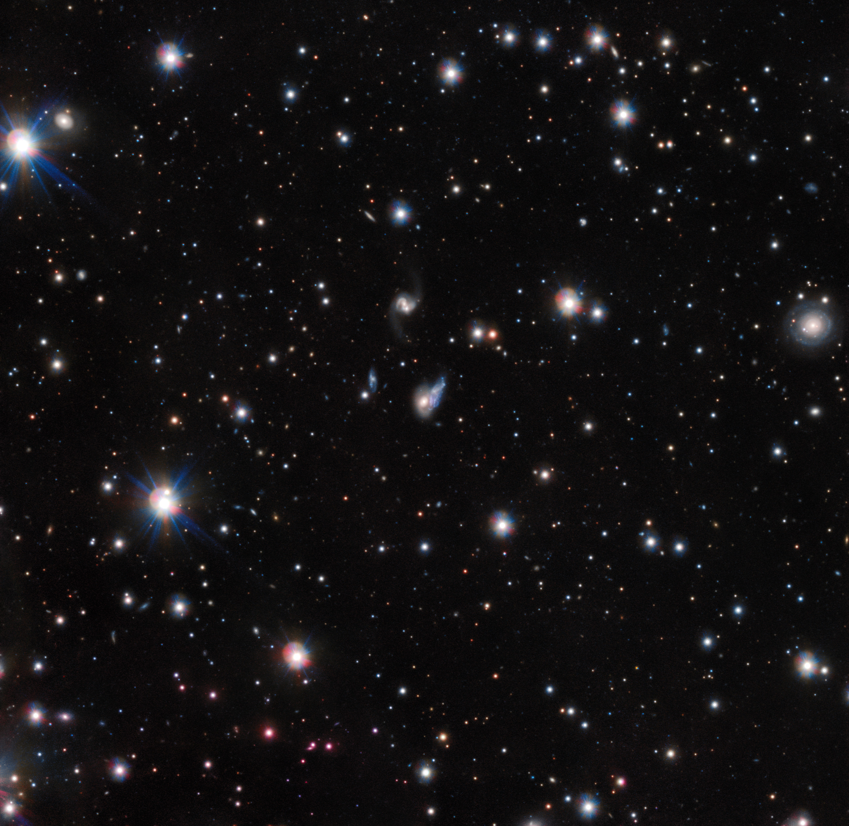 This unique image from ESO’s VLT Survey Telescope (VST) reveals two galaxies at the very beginning of the merging process. The interactions between the duo have created a rare effect known as a light echo, where light reverberates around the material within each galaxy. This is analogous to the acoustic echo where the reflected sound arrives at the listener with a delay after the direct sound. This is the first case of a light echo observed between two galaxies. The larger galaxy, seen here in yellow, is ShaSS 073 — an active galaxy with an extremely luminous core. Its less massive companion, in blue, is named ShaSS 622, and together the pair make up the intriguing ShaSS 622-073 system. The bright core of ShaSS 073 is exciting a region of gas within the disc of its blue companion: it bombards the material there with radiation, causing it to glow brightly as it absorbs and then re-emits this light. This glowing region extends across 1.8 billions of square light-years. However, while studying this merger, astronomers found the luminosity of the large central galaxy to be 20 times lower than needed to excite the gas in this way. This indicates that the centre of ShaSS 073 has dramatically faded over the last 30 000 years or so — but the highly-ionised region between the two galaxies still retains the memory of its former glory.